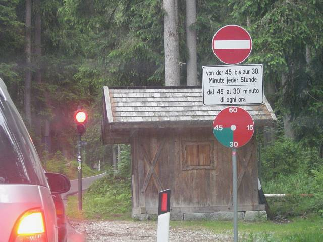 Staller Sattel, traffic light at Italian side